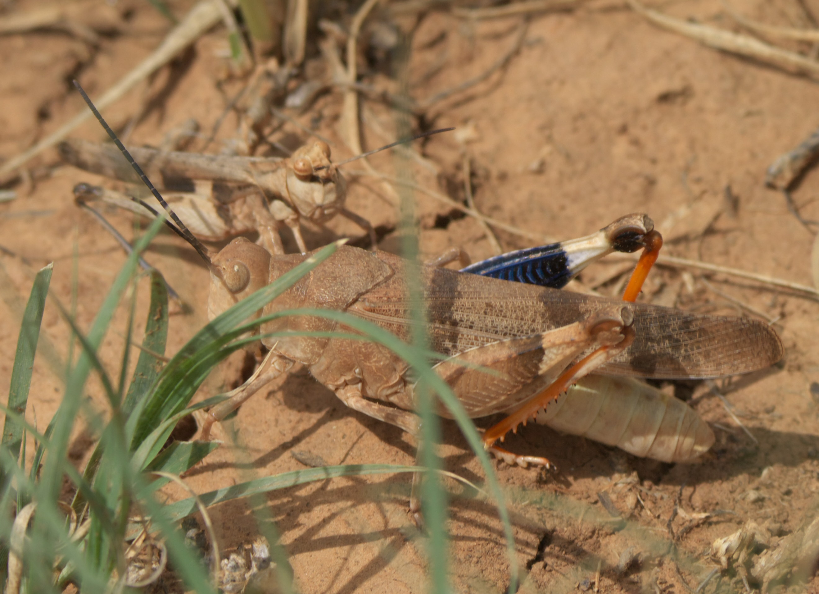 Hadrotettix trifasciatus, Three-banded Grasshopper, ID Confidence: 88